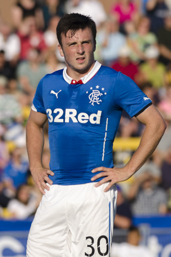 Photo of association football player Calum Gallagher